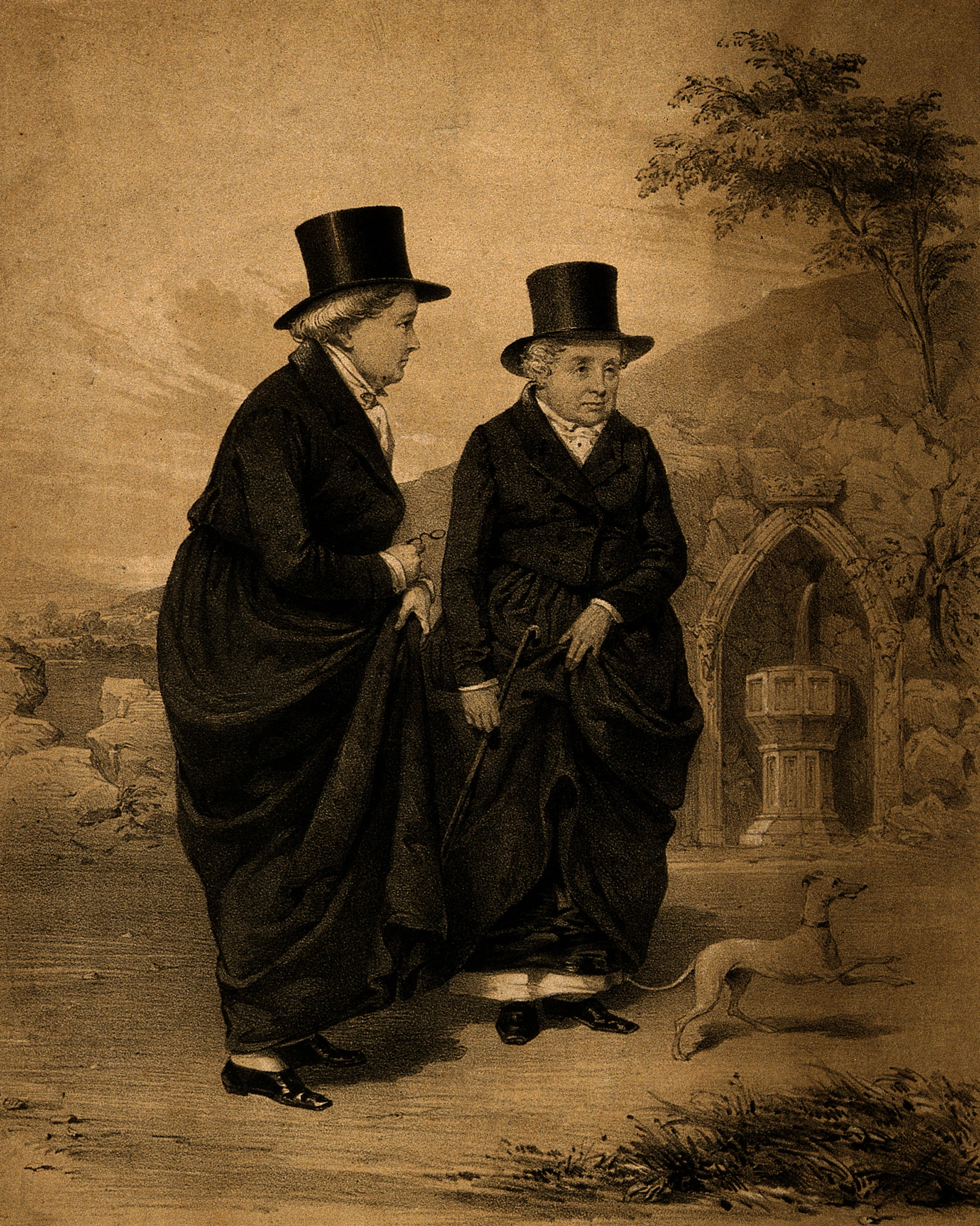 Topic-LCSH: Recluses. Dogs. Lesbians. Genre/Technique: Portrait prints. Lithographs. Subject name: Butler, Eleanor, Lady, 1738 or 1739-1829